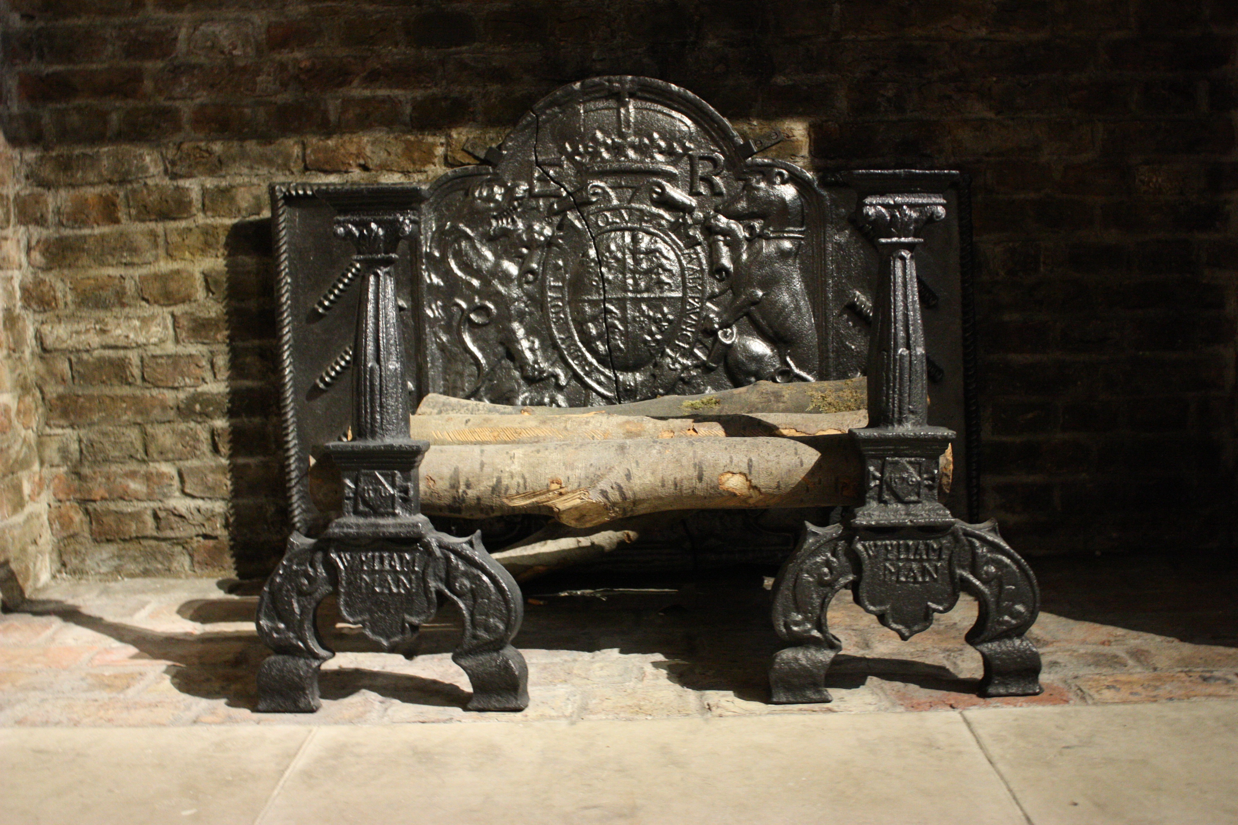 Pair of firedogs Dated 1576 Cast iron England Cast with the name \'Wyllam Man\', probably for the first owner. Firedogs are designed to stand on either side of the fireplace and hold burning logs above the floor to allow an updraft. Wrought iron firedogs survive from the Iron Age and the basic design has remained unchanged. Until the early 16th century firedogs were usually made of wrought iron but records confirm that from the 1540s onward cast iron firedogs were produced in great numbers. This firedog is of cast iron, a material first used in Europe around 1400 for military purposes. In Britain, military and domestic objects were being made from this material by around 1500. Using cast iron to make firedogs was cheaper and quicker than using wrought iron and it had the advantage of making the mass production of a single design possible. Collection ID: M.1-1985 This photo was taken as part of Britain Loves Wikipedia in February 2010 by Valerie McGlinchey.